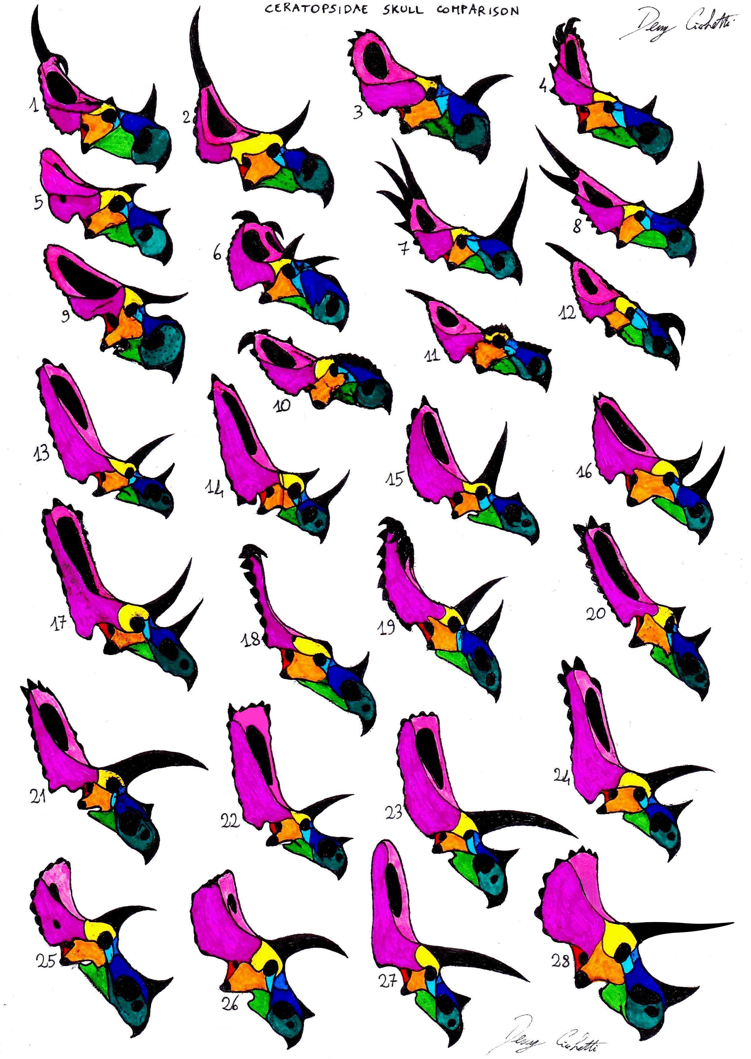 Ceratopsidae skulls (not in scale): 1 = Spinops 2 = Diabloceratops 3 = Centrosaurus 4 = Sinoceratops 5 = Avaceratops 6 = Albertaceratops 7 = Styracosaurus 8 = Rubeosaurus 9 = Nasutoceratops 10 = Pachyrhinosaurus 11 = Achelousaurus 12 = Einiosaurus 13 = Chasmosaurus russelli 14 = Chasmosaurus belli 15 = Agujaceratops 16 = Eoceratops 17 = Mojoceratops 18 = Vagaceratops 19 = Kosmoceratops 20 = Utahceratops 21 = Coahuilaceratops 22 = Bravoceratops 23 = Titanoceratops 24 = Pentaceratops 25 = Tatankaceratops 26 = Ojoceratops 27 = Torosaurus 28 = Triceratops